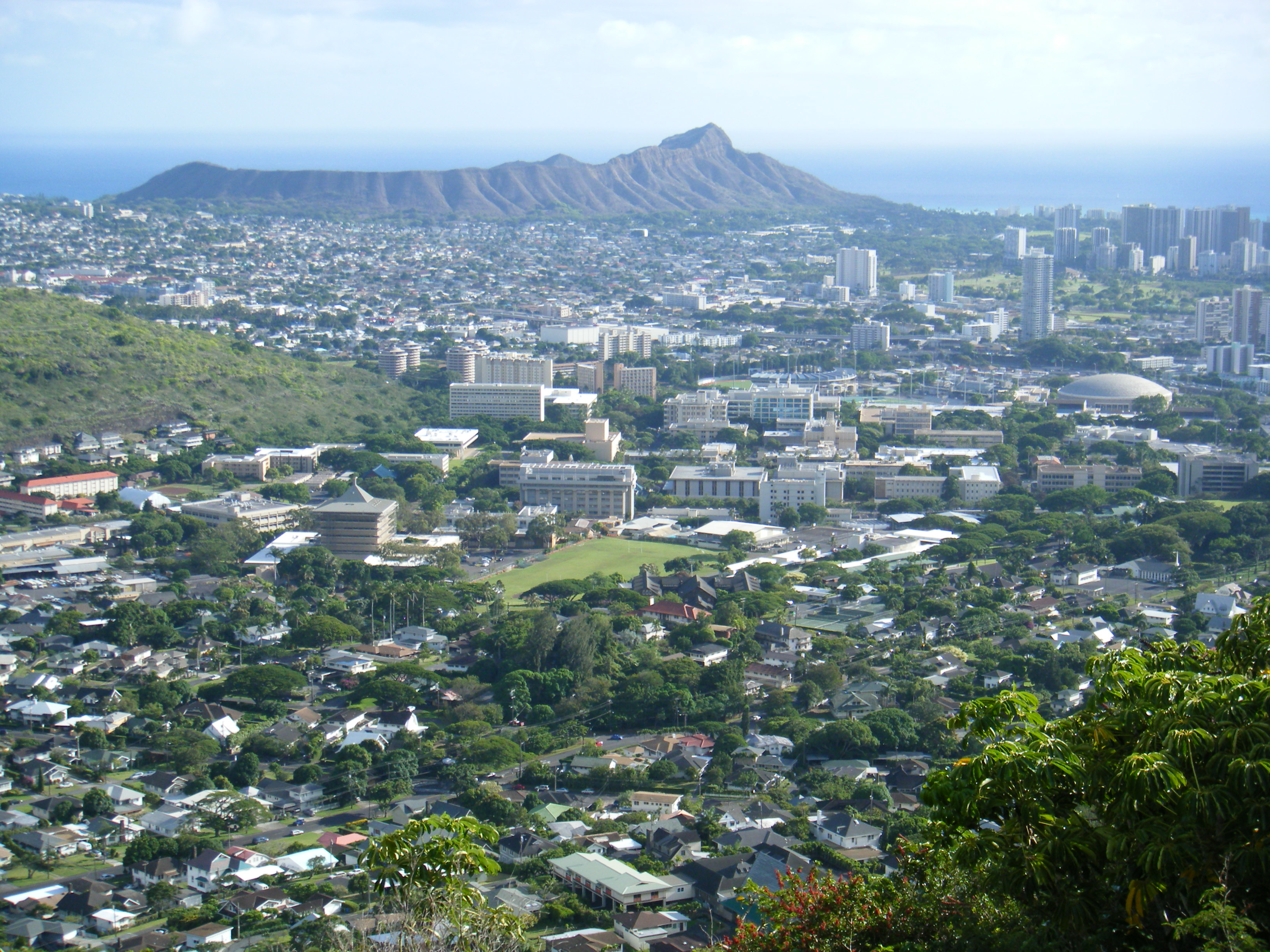 Photo of University of Hawaii, Manoa campus from Round Top drive, Honolulu